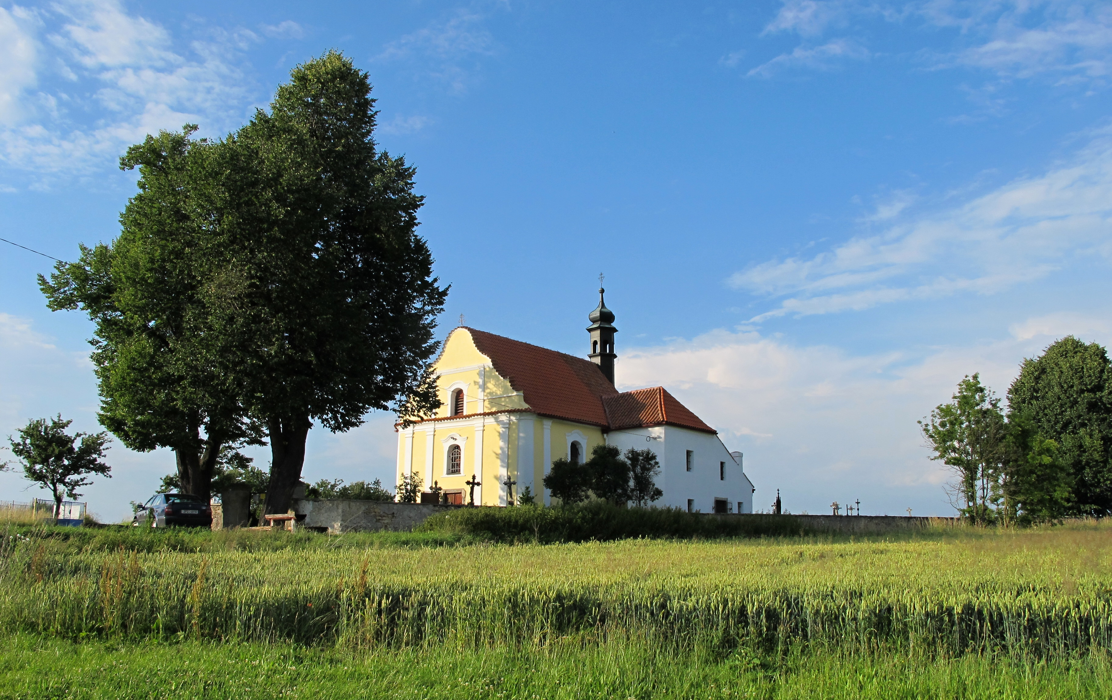 Little church and cemetery near Rabí Castle, icluded in nature park Buděticko, Klatovy District in Czech Republic